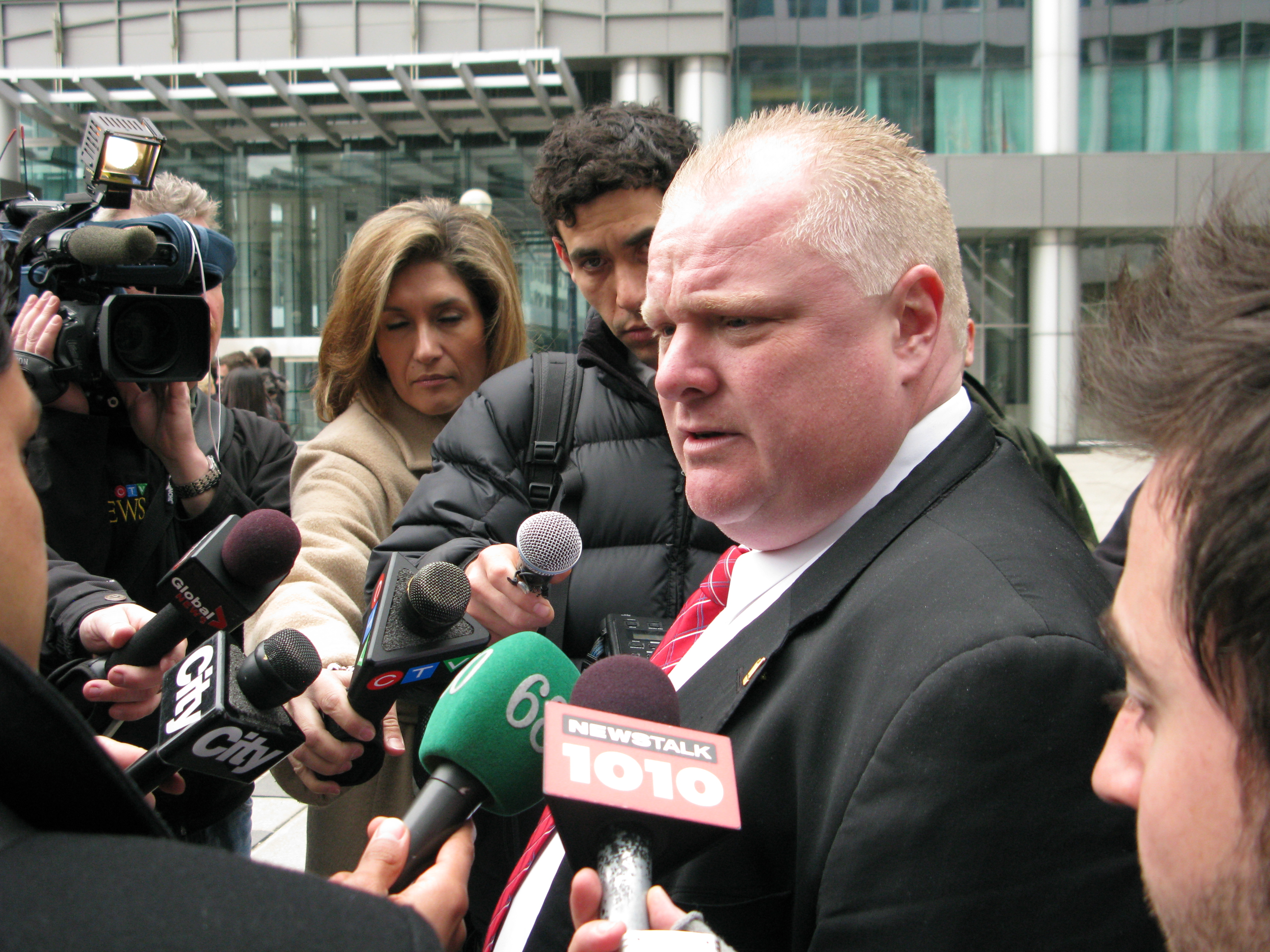 Toronto Mayor Rob for meets members of the press in April 2011